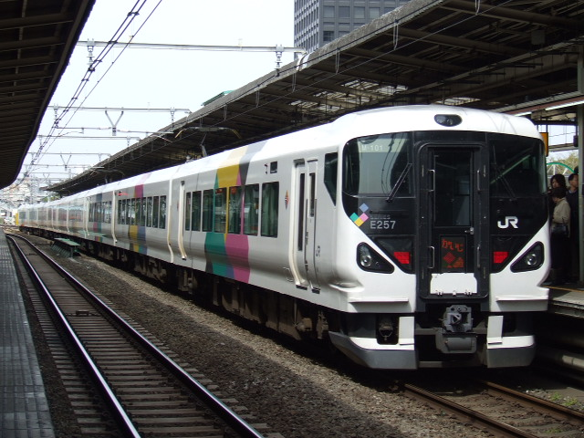 A JR East E257 series EMU on a Kaiji limited express service at Nakano Station in Tokyo